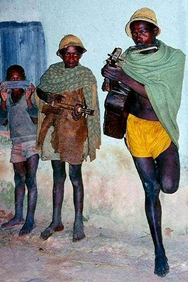 Musicians playing a harmonica, kabosy and guitar in a village outside Fianarantsoa.